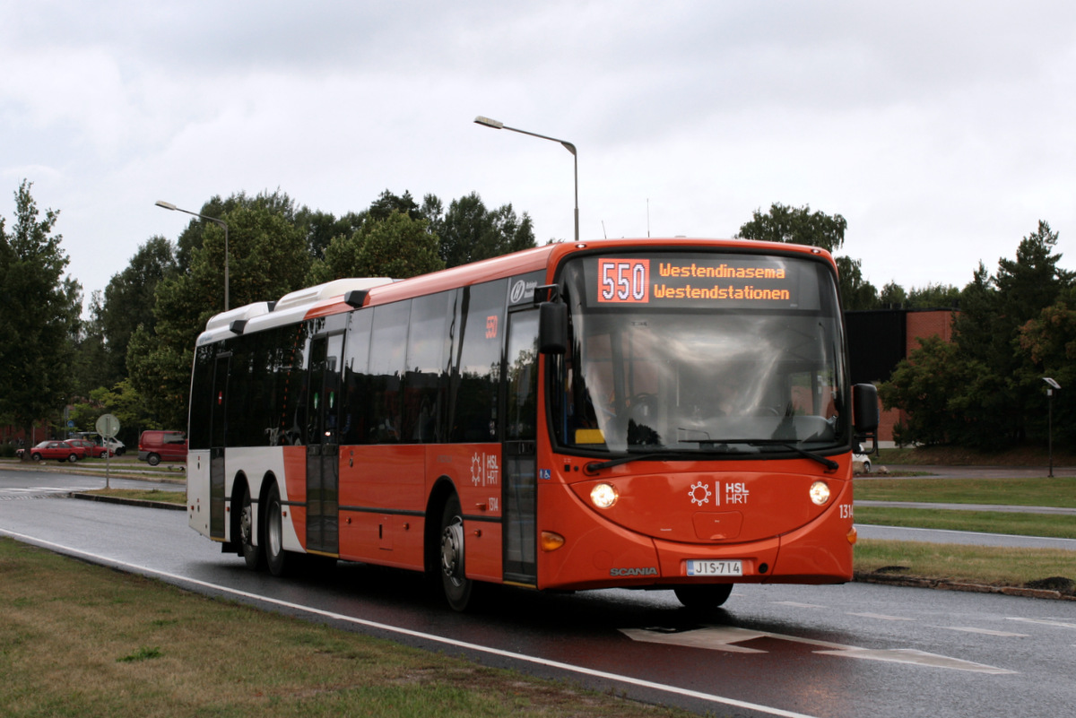 Helsingin Bussiliikenne bus #1314 (Scania K280UB tri-axle chassis with Lahti Scala bodywork) on HRT core bus line 550, on the day the traffic started with the new fleet and image. The line number display has since been changed to white-on-black.